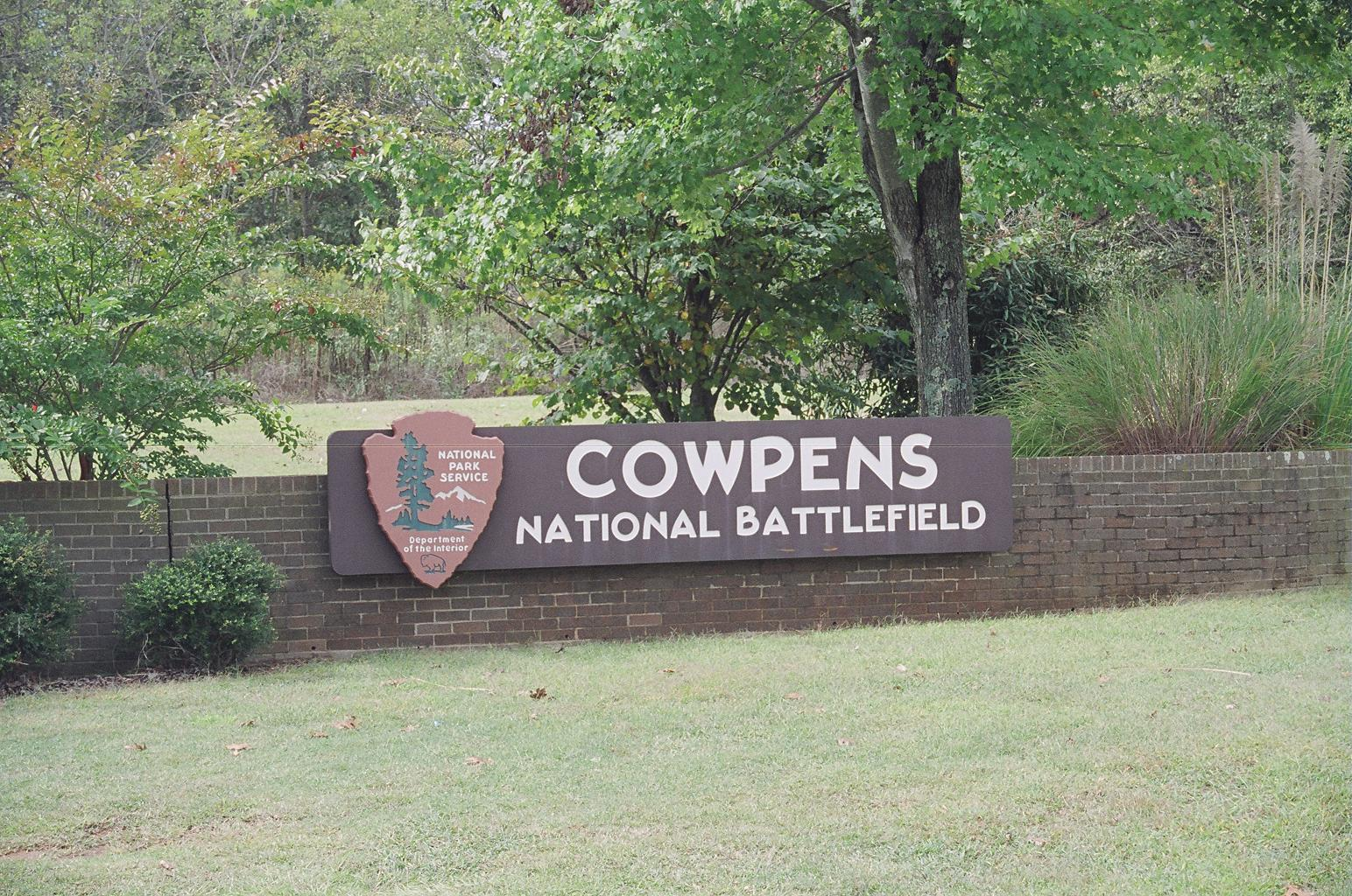 I took this photo at Cowpens Battlefield in October, 2005.